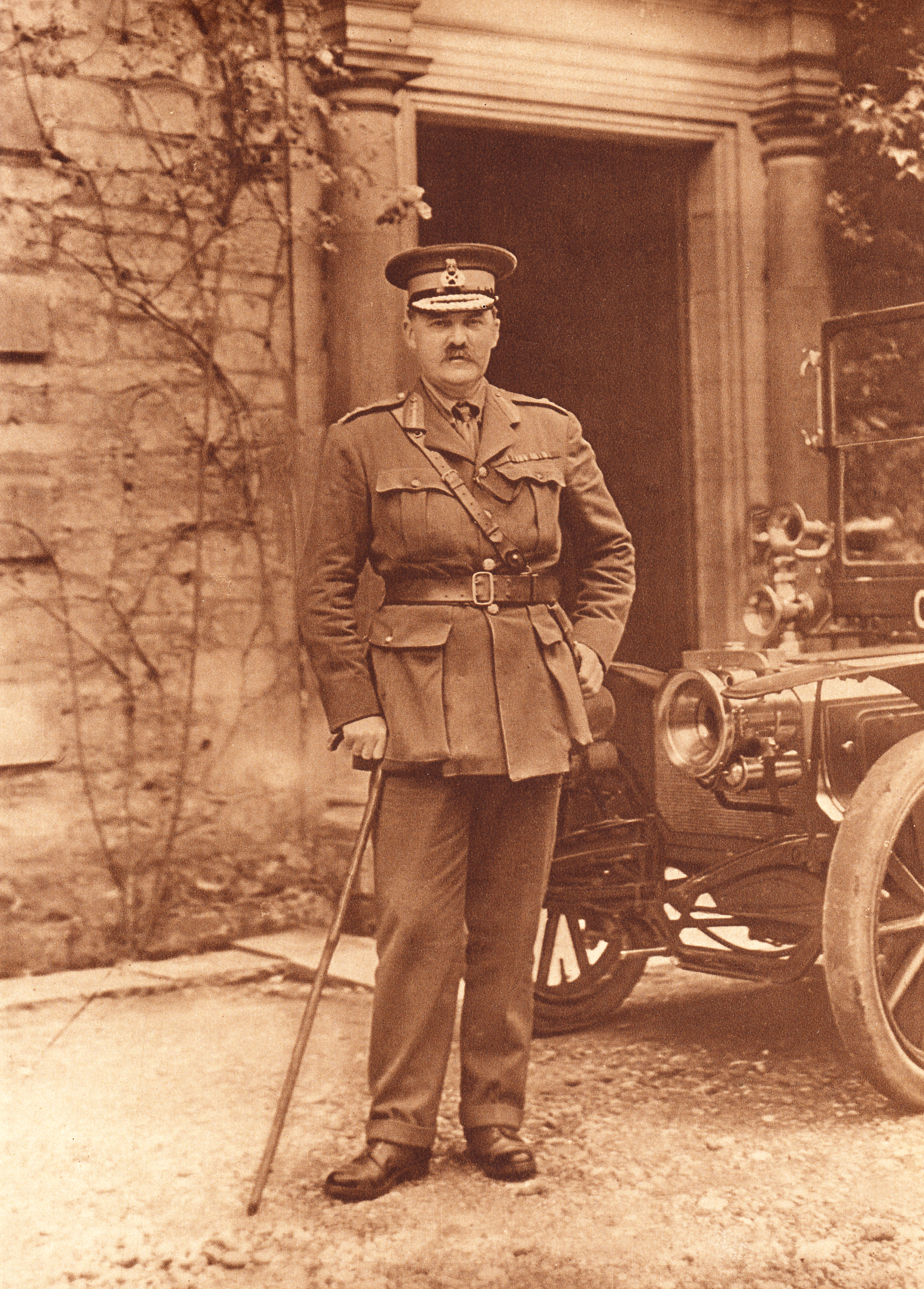 Lieutenant General Sir Francis Davies